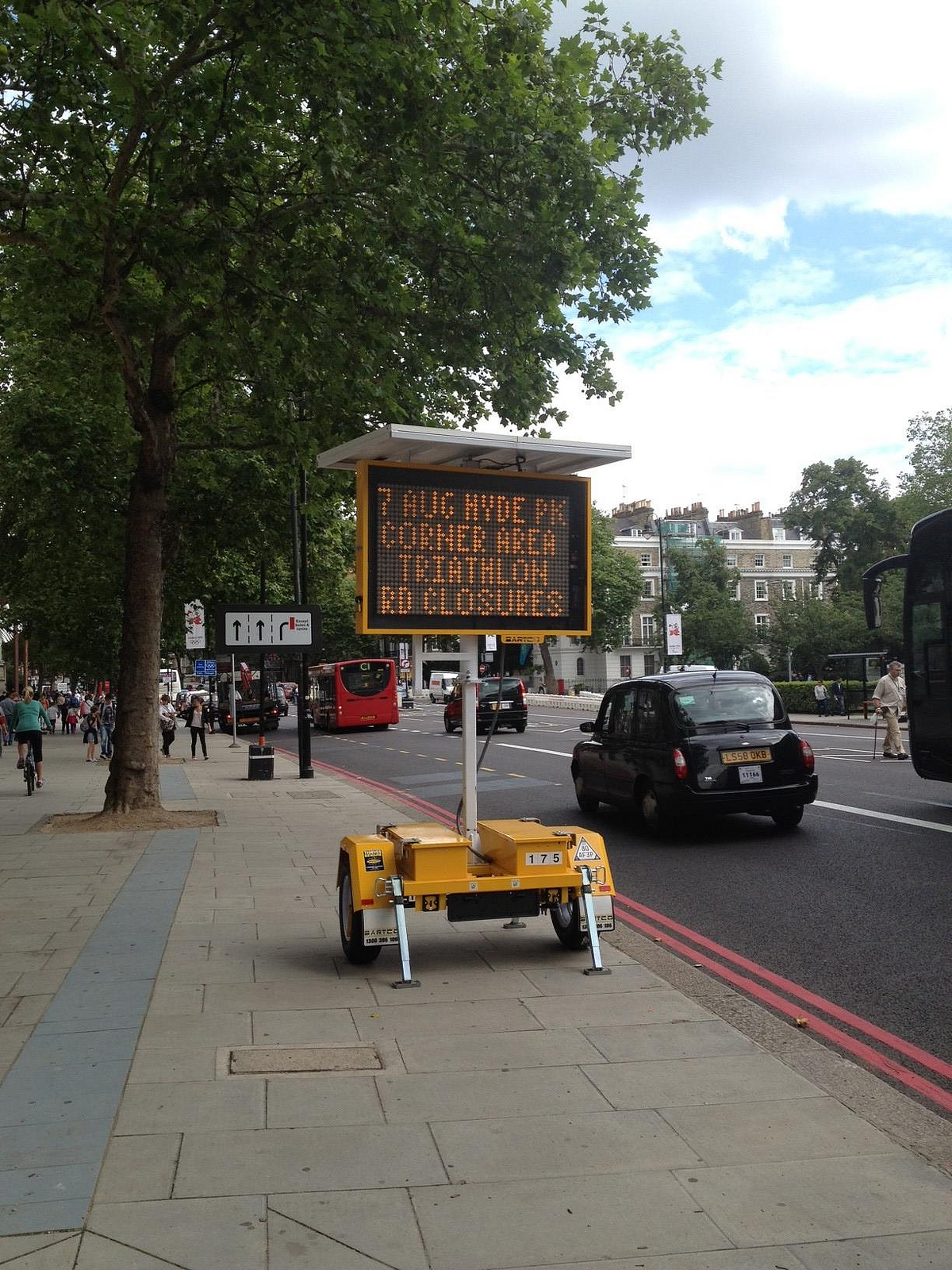 Cromwell road outside V&A